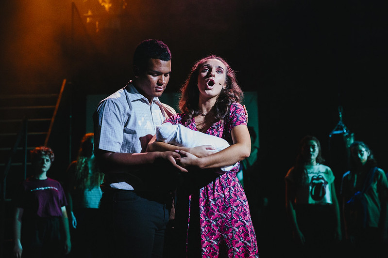 A musical based on the female boxing. Commissioned and presented by British Youth Music Theatre at the Mountview Theatre London